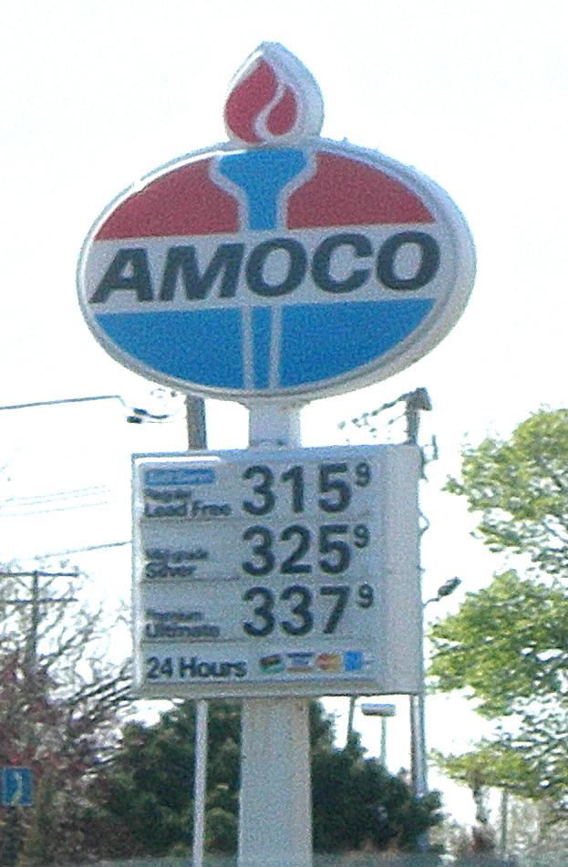 An AMOCO sign in Lake Villa, Illinois. This sign was replaced since the station was converted to a BP.